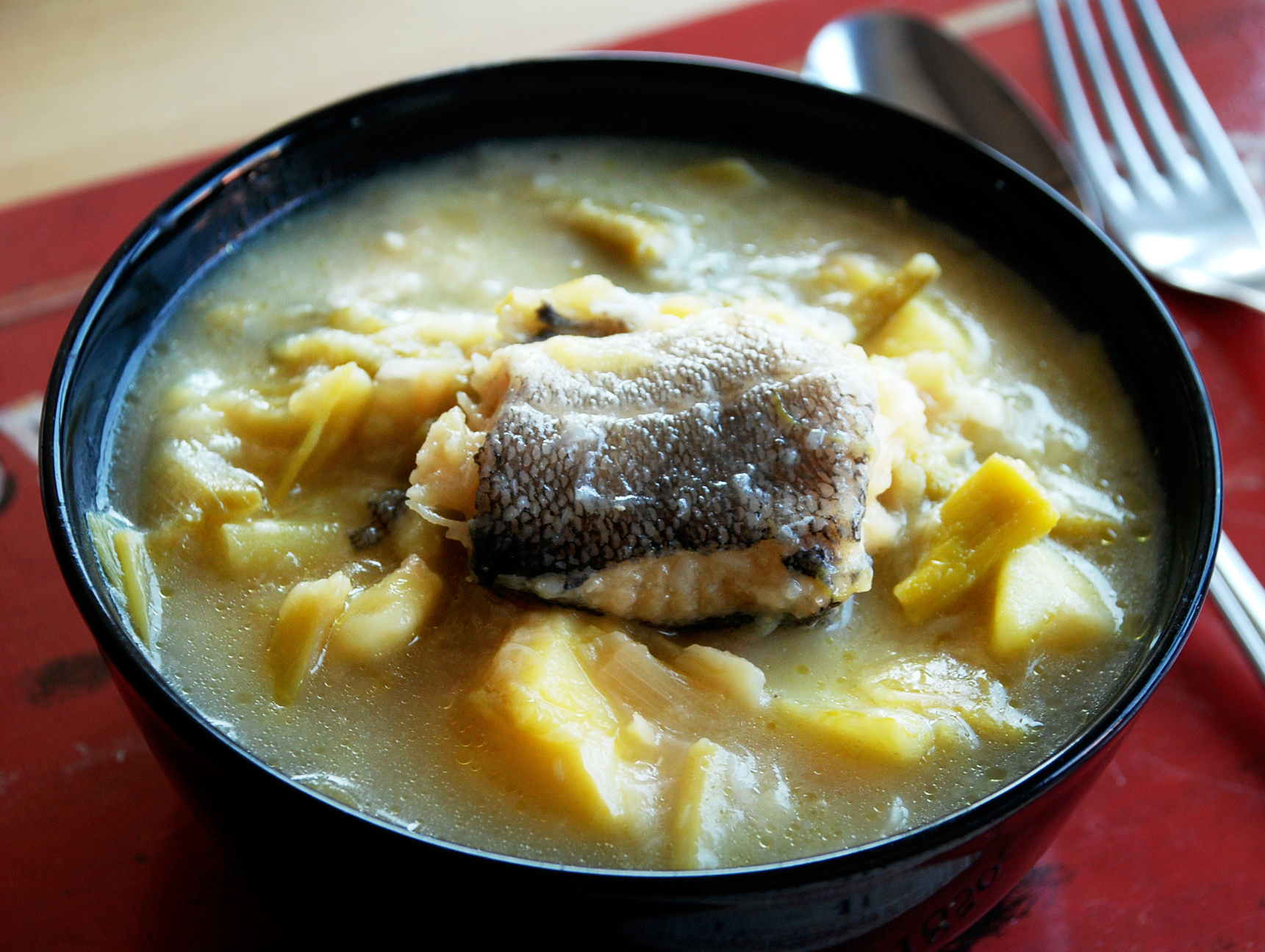 Cuisine of the Basque Country-Porrusalda with cod.